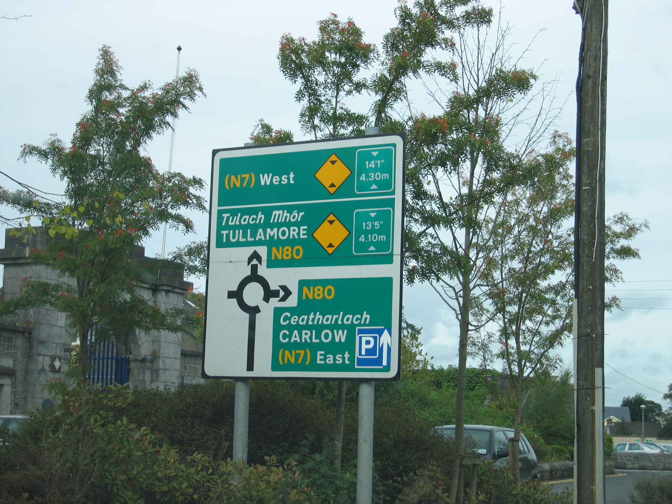 Typical Irish roadsign at roundabout junction in Portlaoise. Explanation of symbols/colours: The background of the sign, in this case white (Regional Road (Rxxx)/local road (Lxxxx)), is based on the colour code for the road the sign/motorist is on. The black-on-white diagram represents the roundabout ahead and the roads radiating from it. The long black line indicates the direction of approach. In this case the first exit from the roundabout is a local (unsignposted) road to the left. the second exit is the N80 leading to Tullamore and access to the N7 west. This area is "patched" green as the N80 and N7 are both National Routes. the third exit is the N80 leading to Carlow and Access to the N7 east. This area is also "patched" green as the N80 and N7 are both National Routes. the gap in the "roundabout symbol" is to indicate that the next road is the one you are already on. You could use the roundabout to do a U-turn, provided you are not on a one-way street! On the N80, heading for Tullamore and also on a section of the N7 heading west there there are low bridges. This is highlighted by typical black-on-yellow diamonds and the heights (in feet and in meters) are given alongside the yellow warning diamonds. At the bottom right is a sign for a car parking facility. This picture has been taken in Portlaoise at the Abbeyleix Road south of the Abbeyleix Road Roundabout.